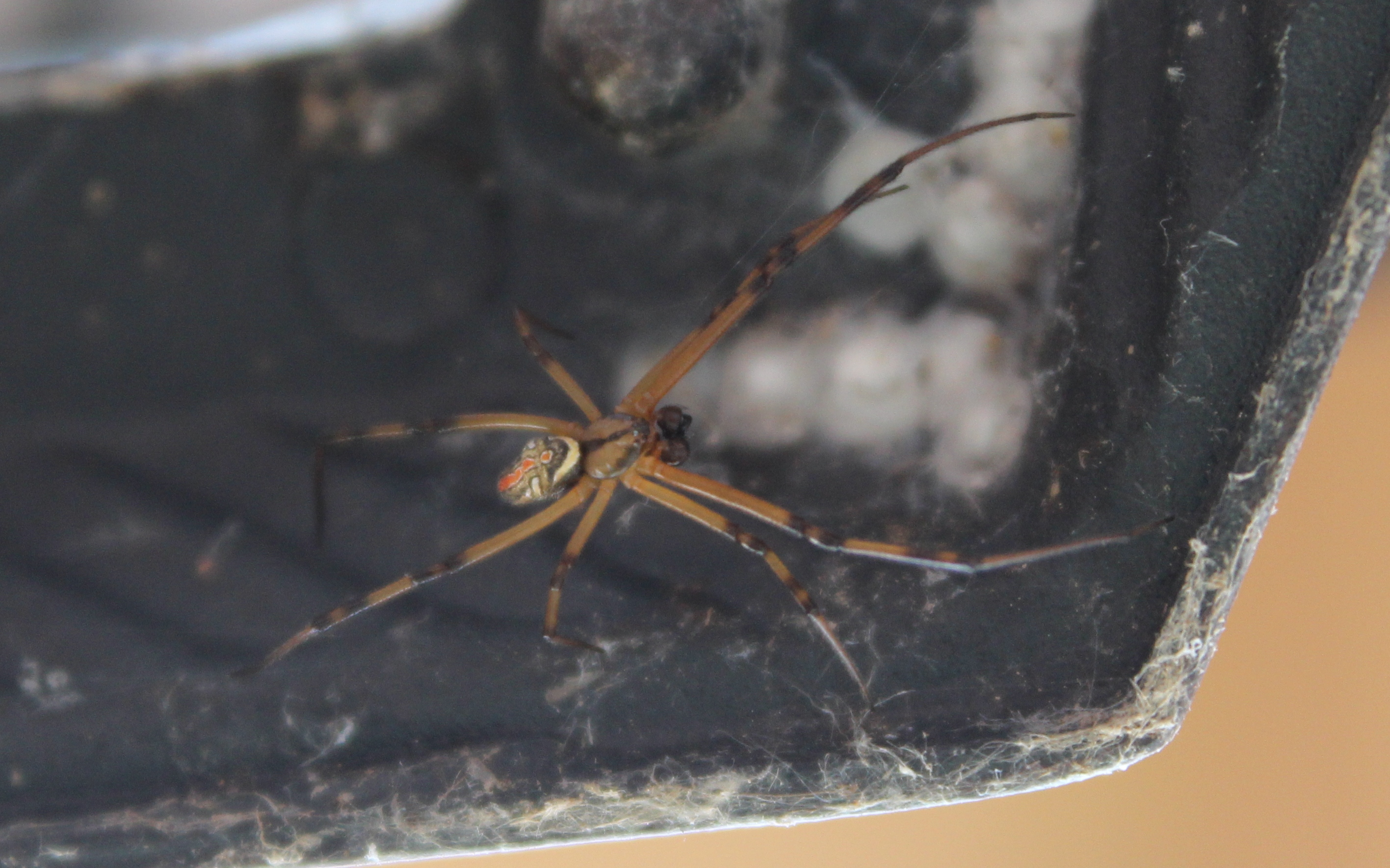 Brown widow spider Latrodectus geometricus backside